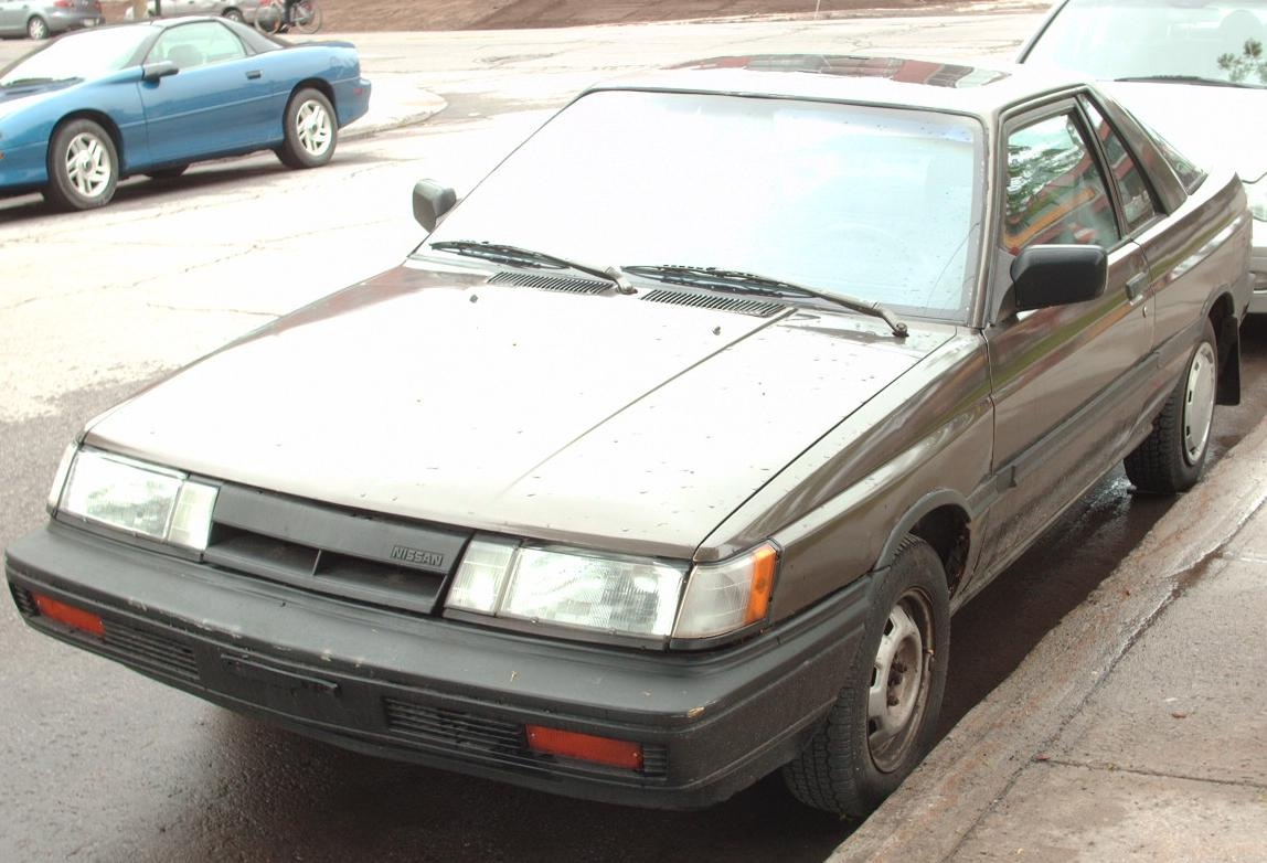 1987-1988 Nissan Sentra photographed in Montreal, Quebec, Canada.